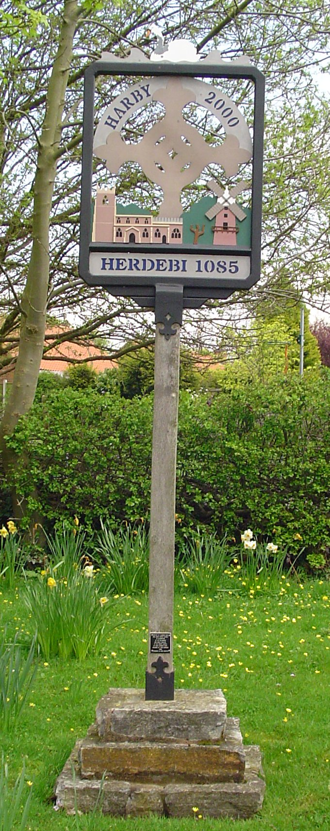 Signpost in Harby